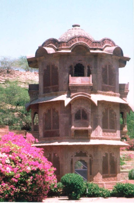 The EK THAMBA MAHAL Mandore Garden, Jodhpur (Rajasthan, India).